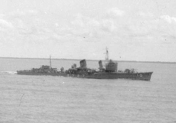 Japanese destroyer Akatsuki Removed caption read: Photo # NH 75491 (cropped) Japanese destroyer Akatsuki in the Yangtse, 1937 Imperial Japanese Navy destroyer Akatsuki steaming in the Yangtse River, China, while convoying transports in August 1937. The image is cropped from Photo # NH 75491. The original print was received from the Office of Naval Intelligence, circa the early 1940s. U.S. Naval Historical Center Photograph. Online Image: 49KB; 740 x 540 pixels